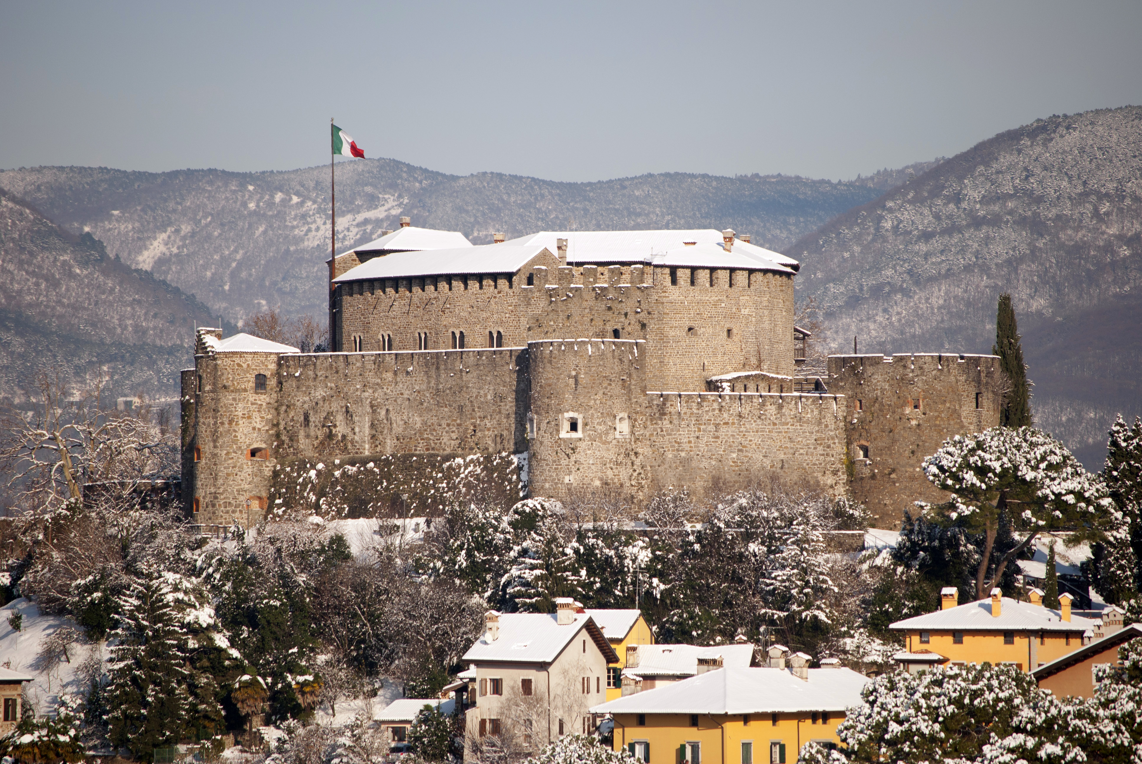 Castle of Gorizia with snow, Italy